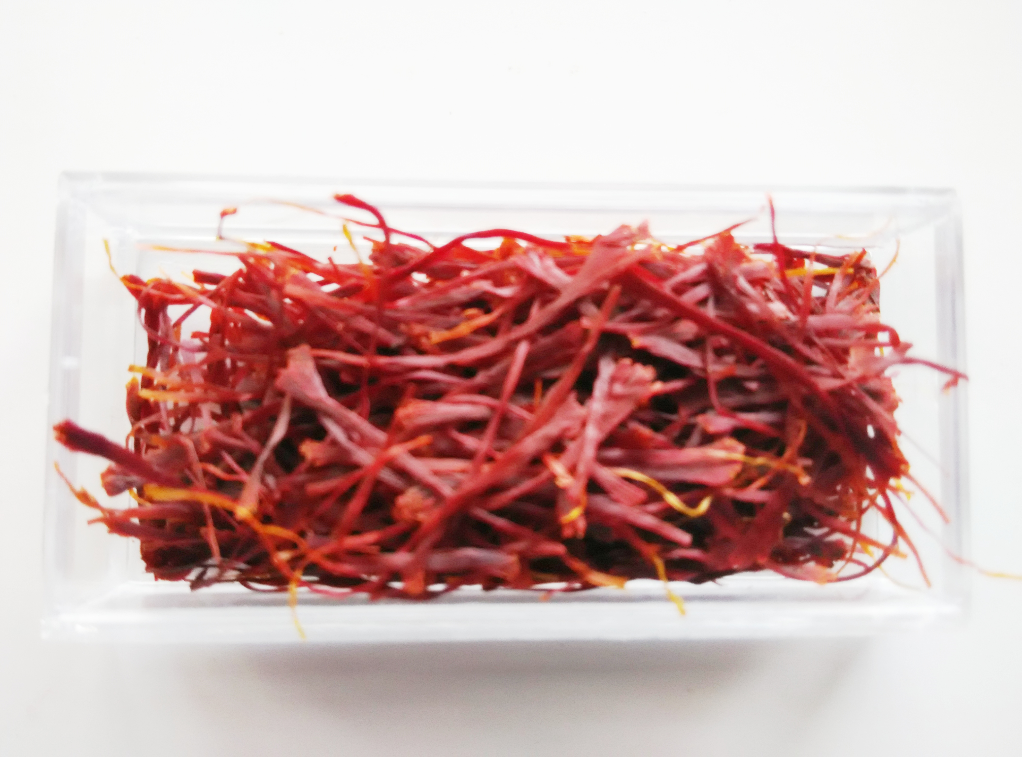 Pure Kashmiri saffron